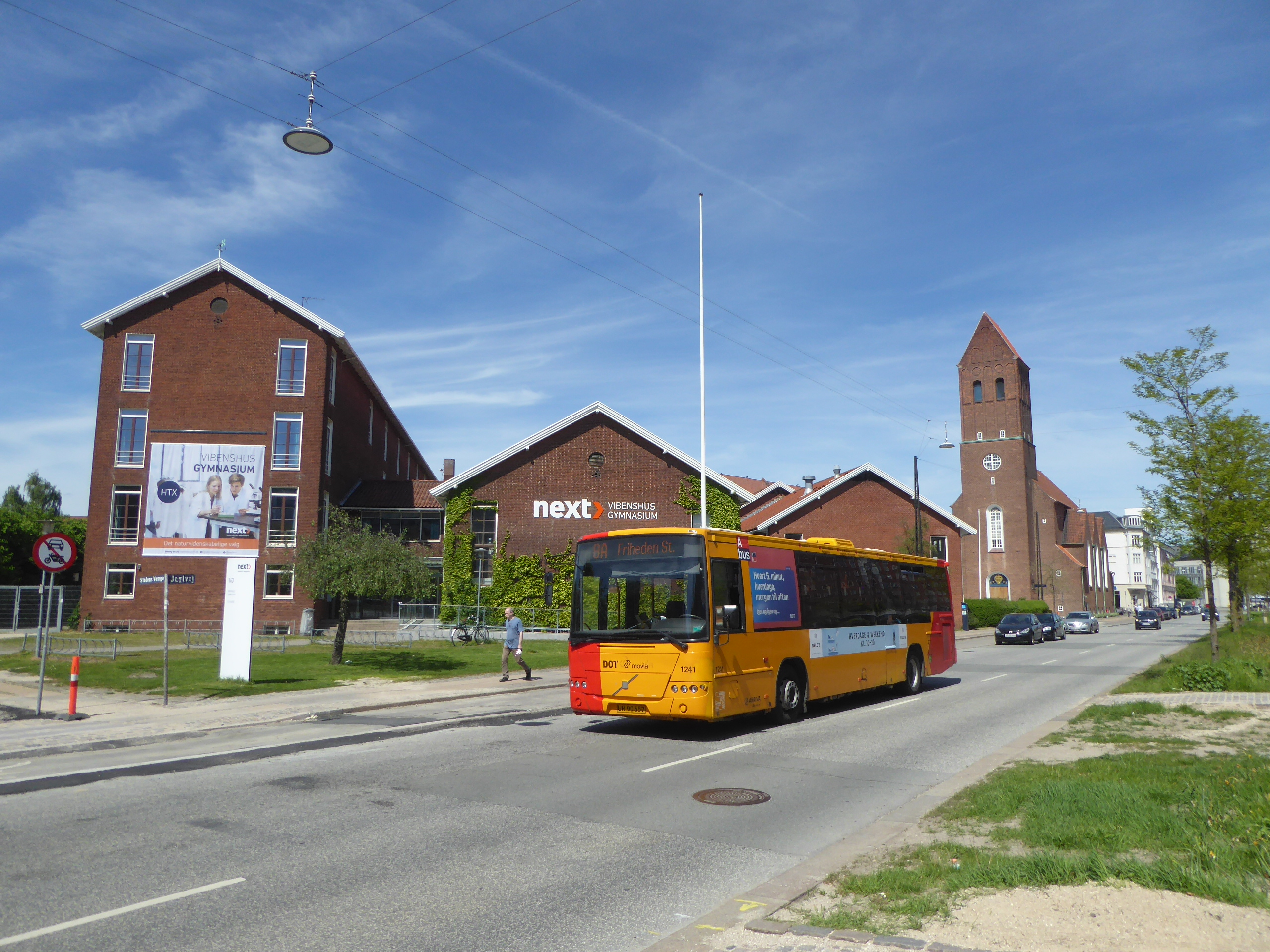 Movia bus line 8A on Jagtvej at the high school Vibenshus Gymnasium in Østerbro in Copenhagen. In the background at the right the church Taksigelseskirken can be seen.